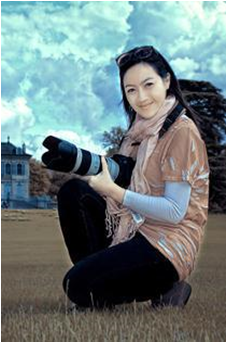 Sandriani Permani, an instructor at Darwis Triadi Photographer School